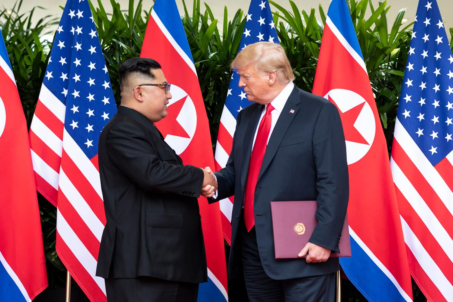 President Donald J. Trump with North Korean leader Kim Jong Un | June 12, 2018 (Official White House Photo by Shealah Craighead)